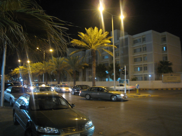 Red Lights & few Blue lights